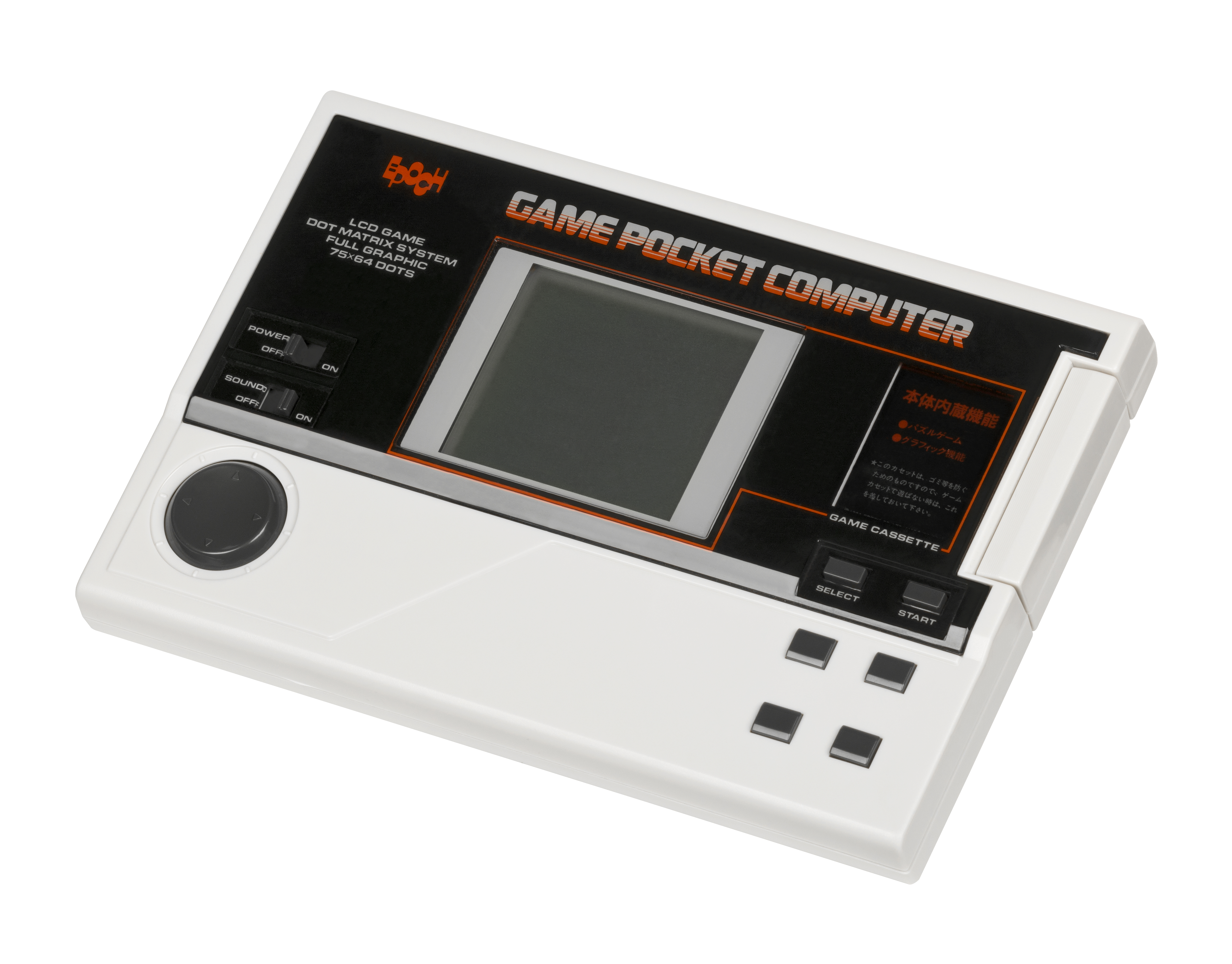 The Epoch Game Pocket Computer, a handheld gaming console released in Japan in 1984. This obscure system is one of the earliest handheld console ever made, featuring a 75x64 resolution LCD screen, two built-in programs and interchangeable game cartridges. The Game Pocket Computer was short-lived, and only a handful of games were ever produced before it was discontinued. (These photos were taken with the help of the Videogame History Museum in Frisco, Texas.)